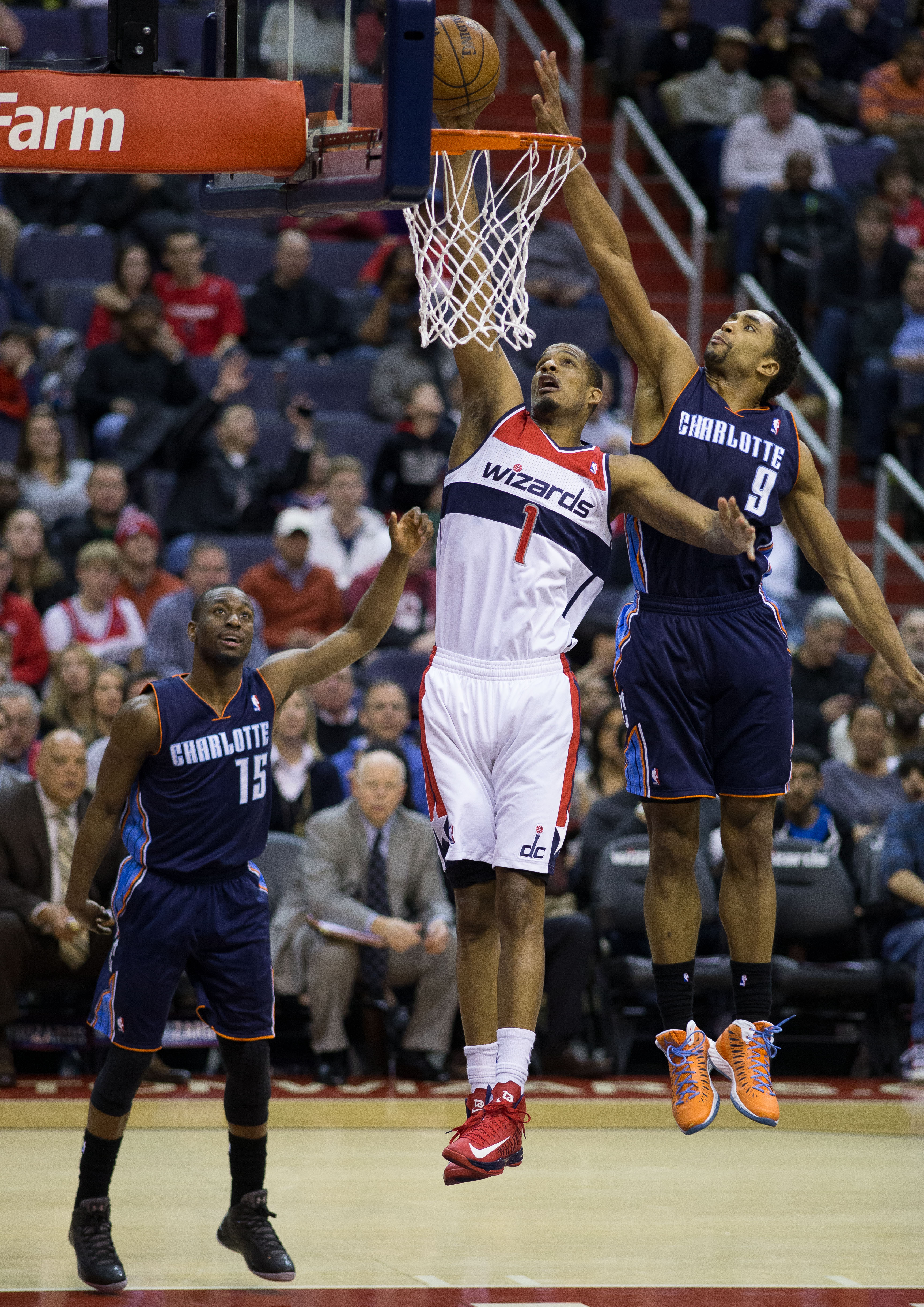 Charlotte Bobcats at Washington Wizards March 9, 2013